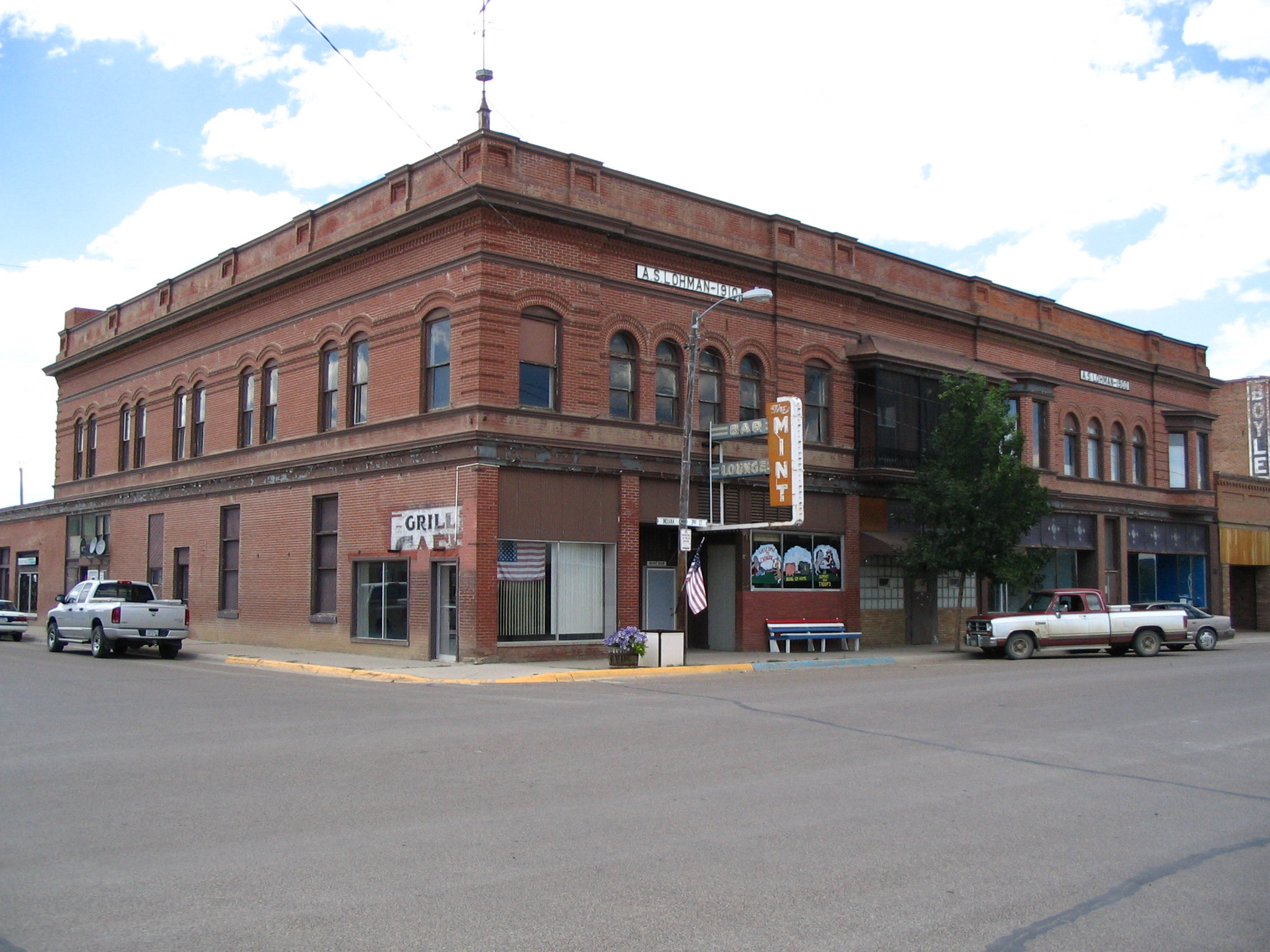 The Historic Lohman Block in Chinook, Montana. The portion at right was built in 1900 with the corner building added in 1910.